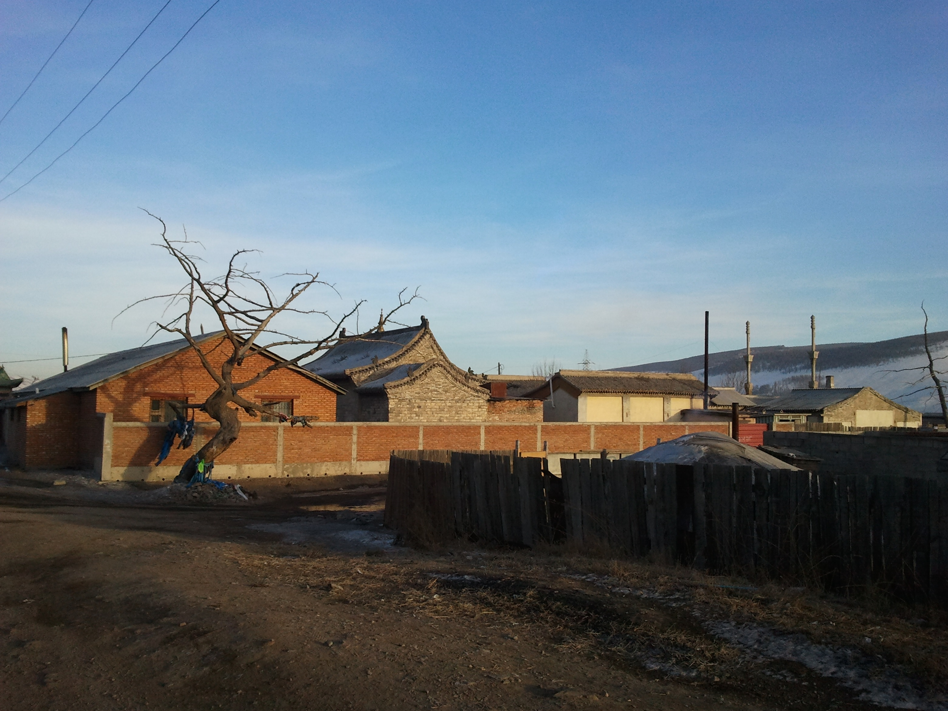 Dari Ekhiin Sum temple (built 1778) in Amgalan (former central Maimaicheng) in Bayanzurkh District, Ulaanbaatar, Mongolia. Now the Dolma Ling Nunnery. A 235 year old poplar and two 230 year old granite columns can also be seen.